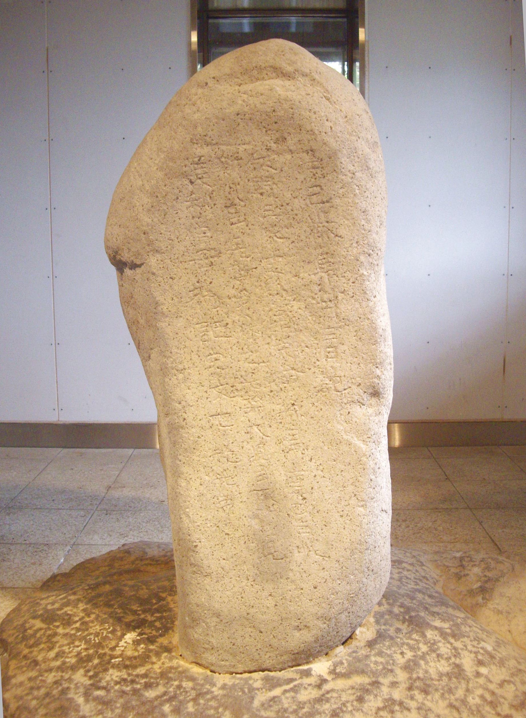 "Yamanouehi" stone monument, in Takasaki, Gunma Prefecture, Japan